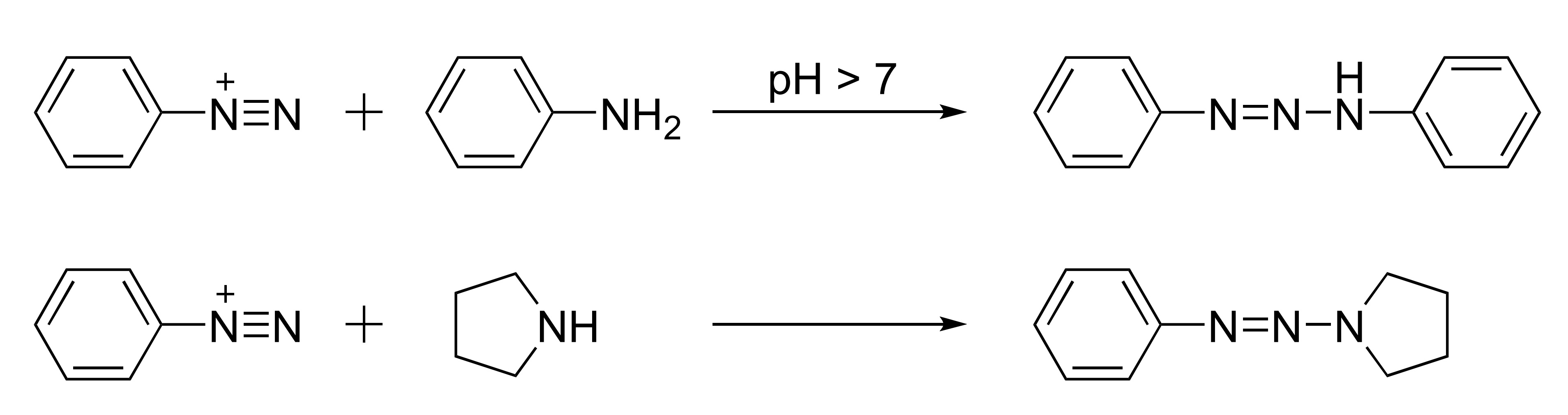 azoamine synthesis